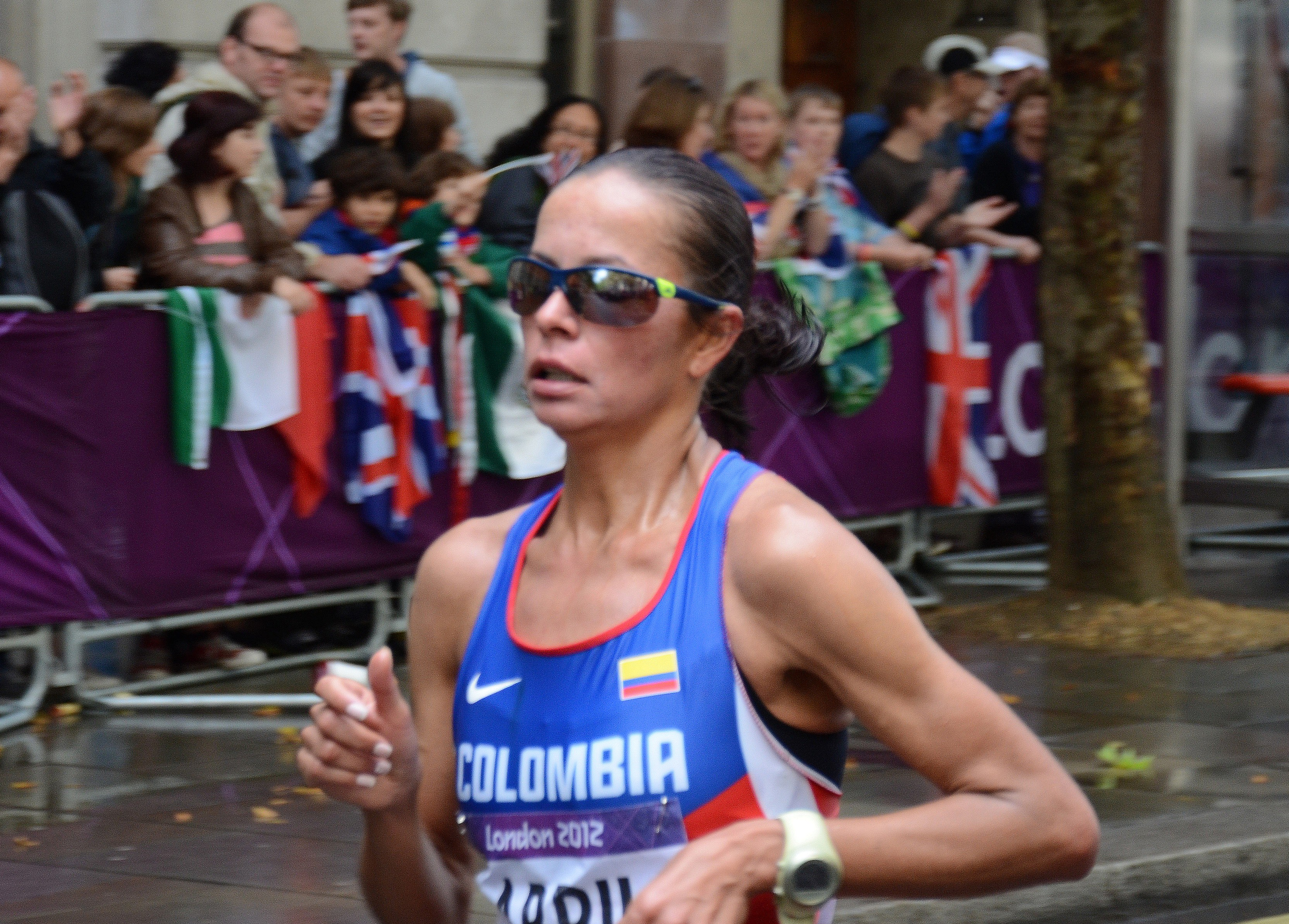 Erika Abril (Colombia) in the marathon (w) at the Olympic Games 2012